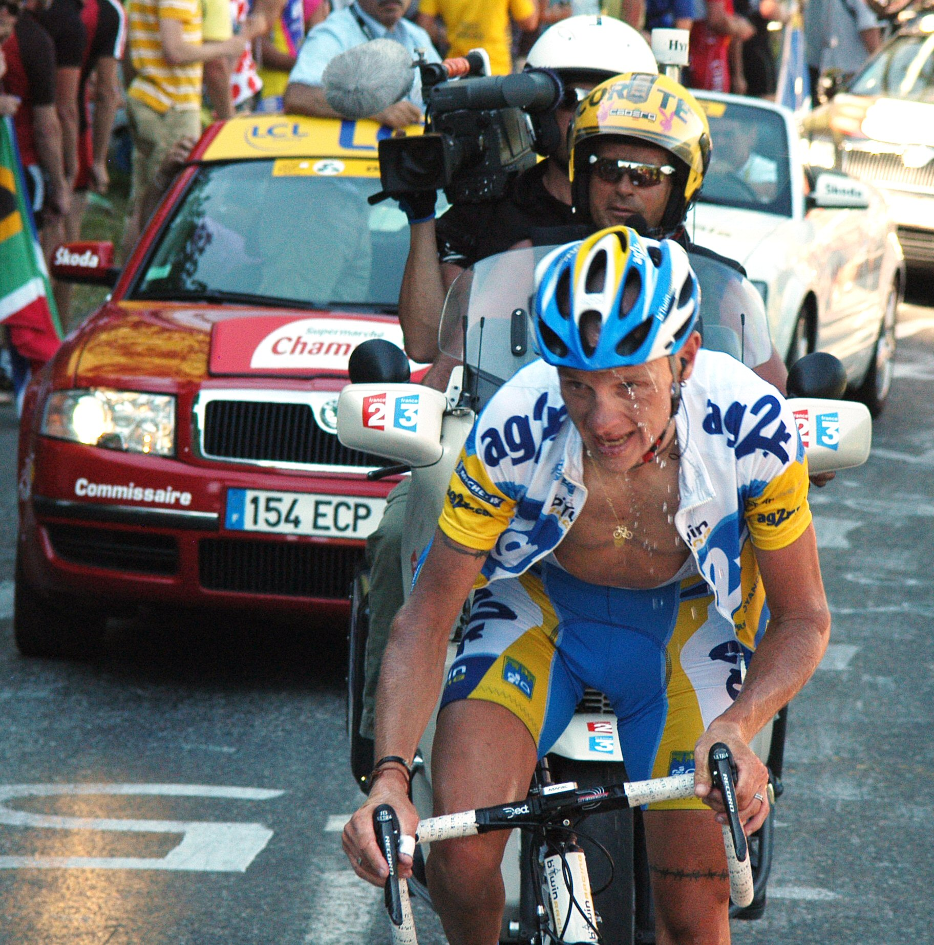 John Gadret at stage 7 of the Tour de France 2007 on the Col de la Colombière.